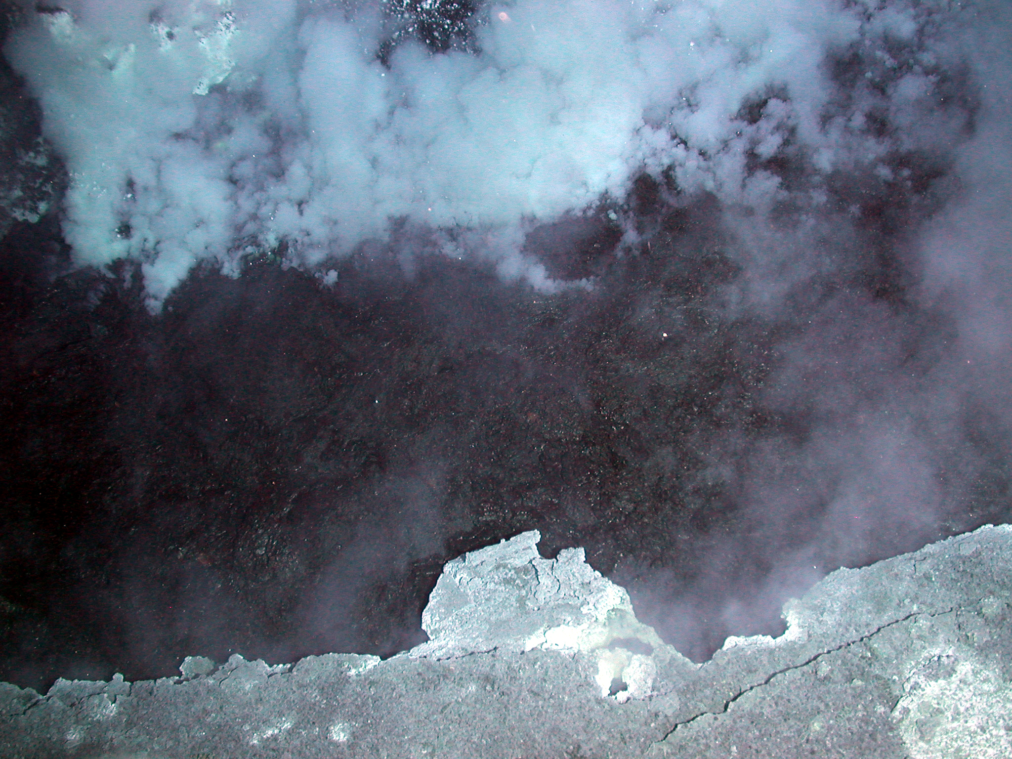 The pond of molten sulfur discovered at Daikoku volcano is about 15 feet long and 10 feet wide. The temperature of the molten sulfur was measured at 187°C (369°F).